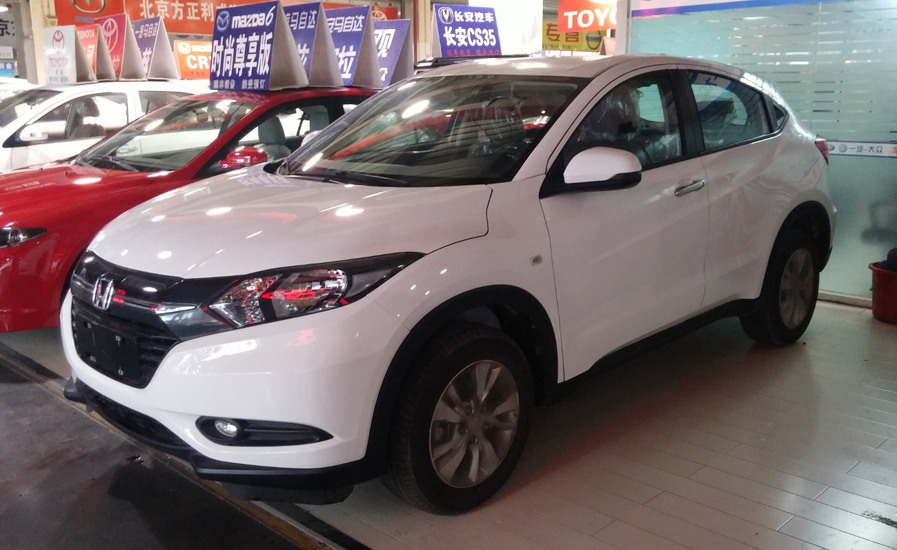 Honda Vezel photographed in Beijing, China.